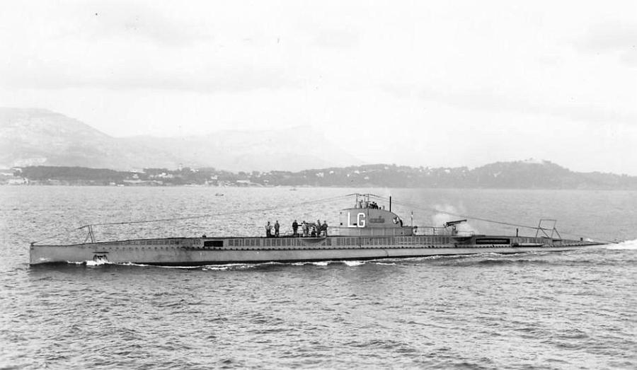 French sumbarine Lagrange, of the Lagrange class, after 1922-1923 refit.